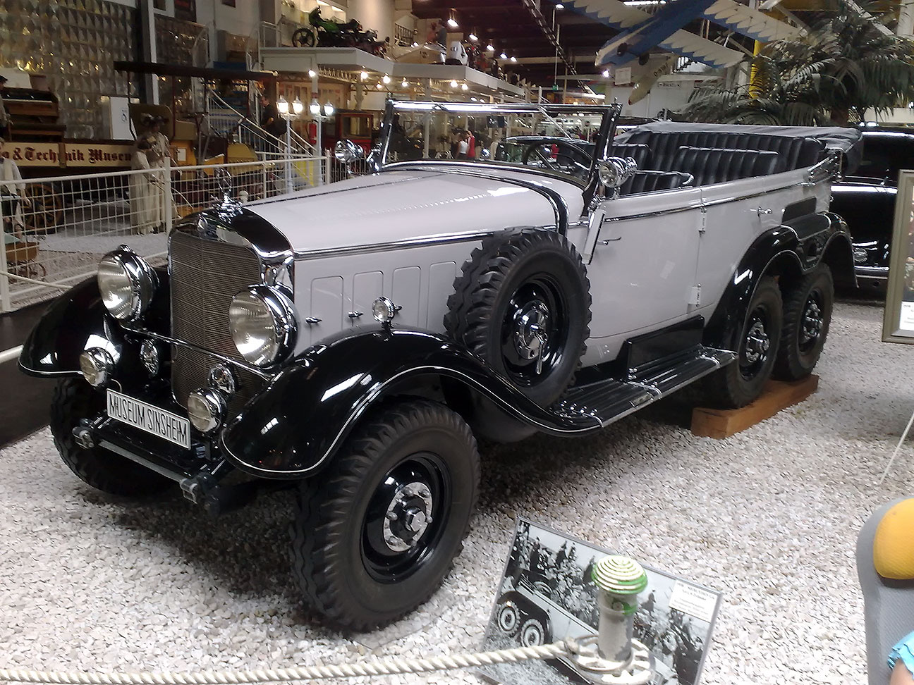 Mercedes Benz G4 at Auto- und Technikmuseum Sinsheim